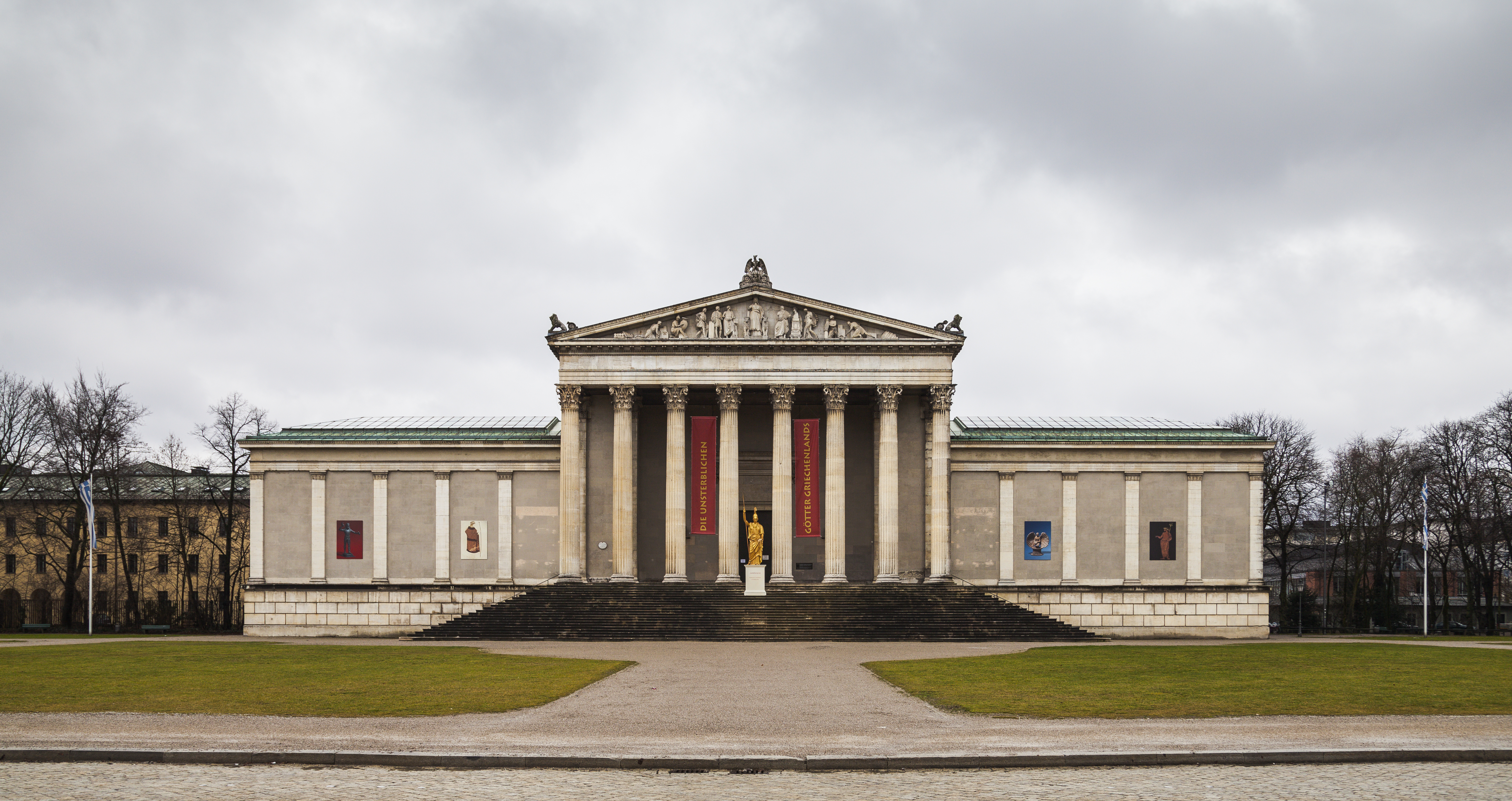 State Collection of Antiques, Munich, Germany